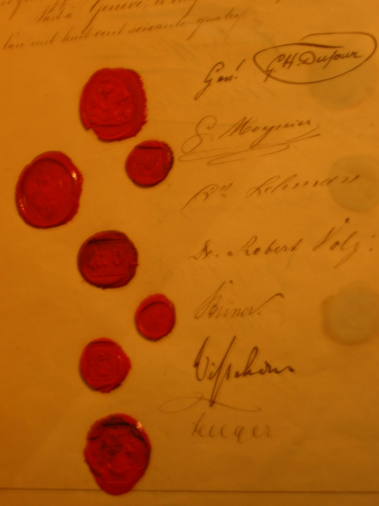 The signature page of the original Geneva Convention of 1864, bearing the signature of several delegates